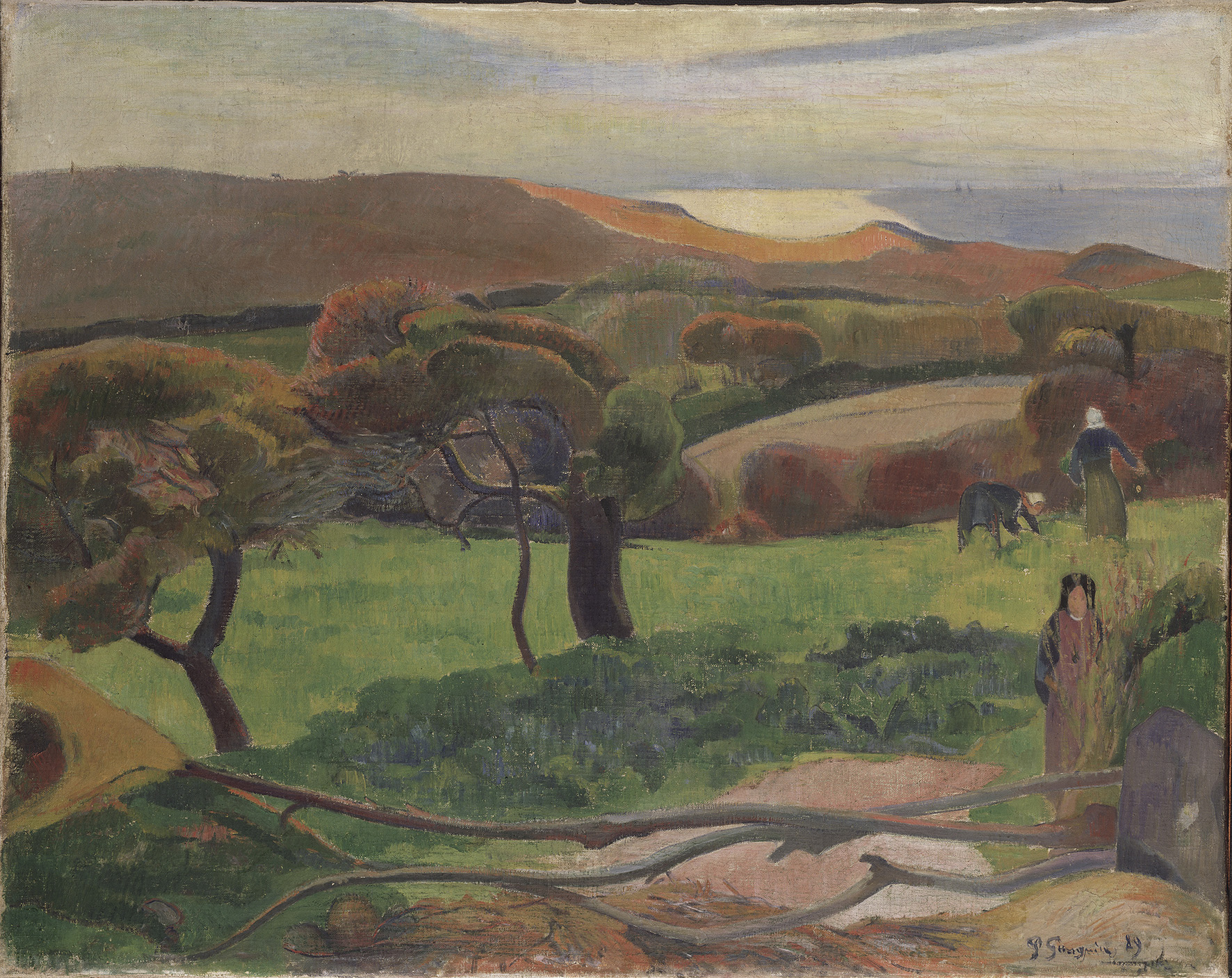 Fields at the sea)